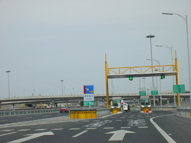 Former Laiguangying Toll Gate (5th Ring Road Beijing)